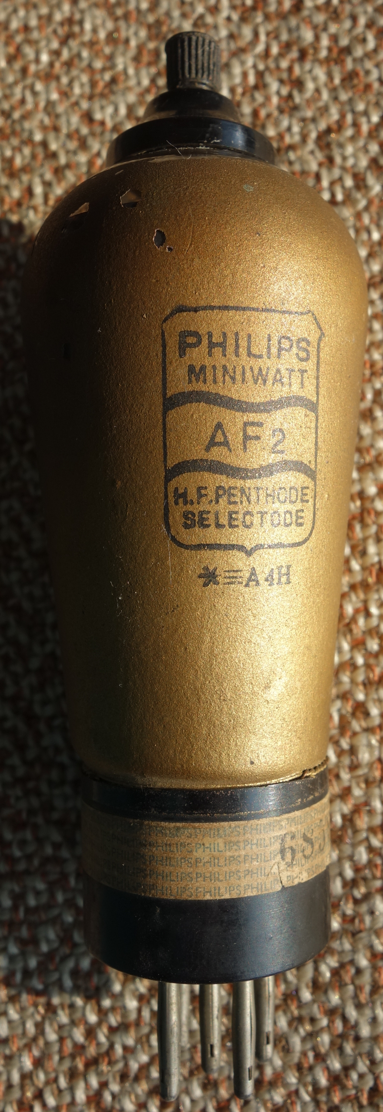 AF2 penthode - selectode Philips